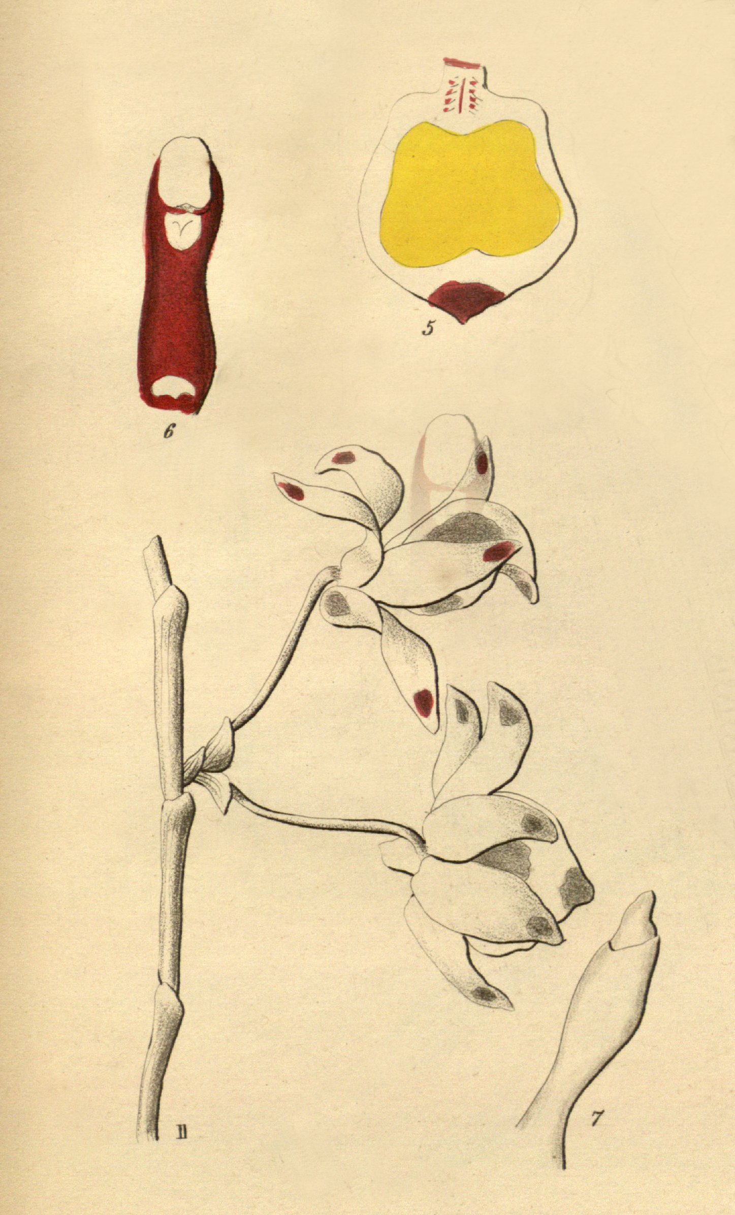 Illustration of Dendrobium gratiosissimum